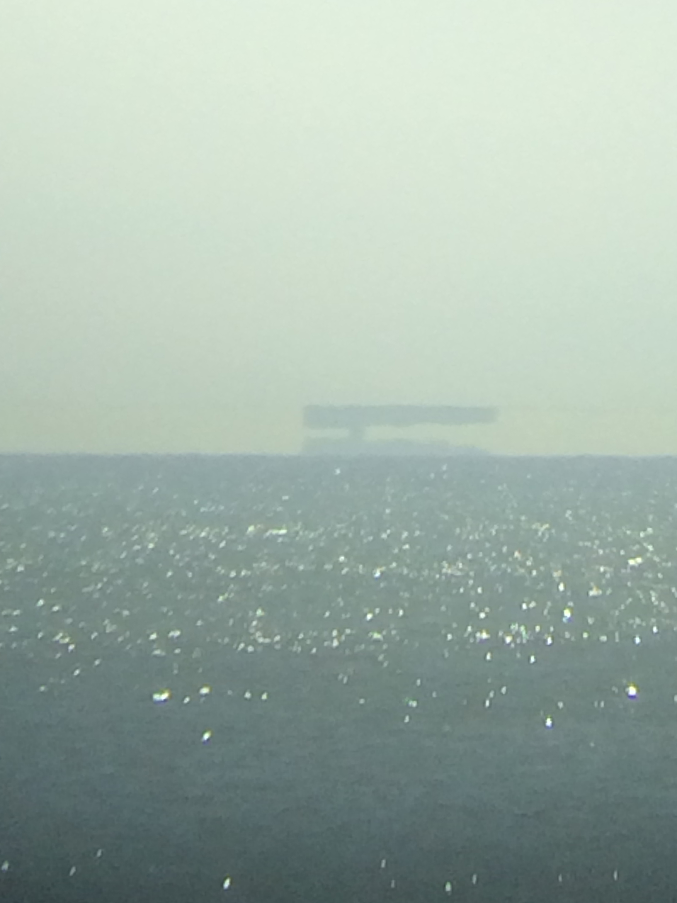 Fata Morgana as seen off the coast of Manhattan Beach, CA on March 9, 2014